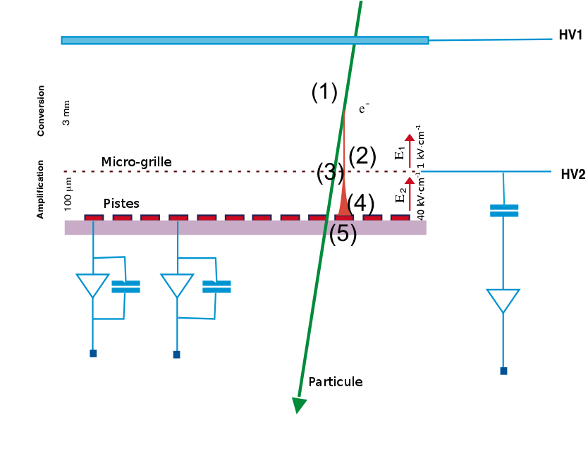 Particle going through a Micromegas detector